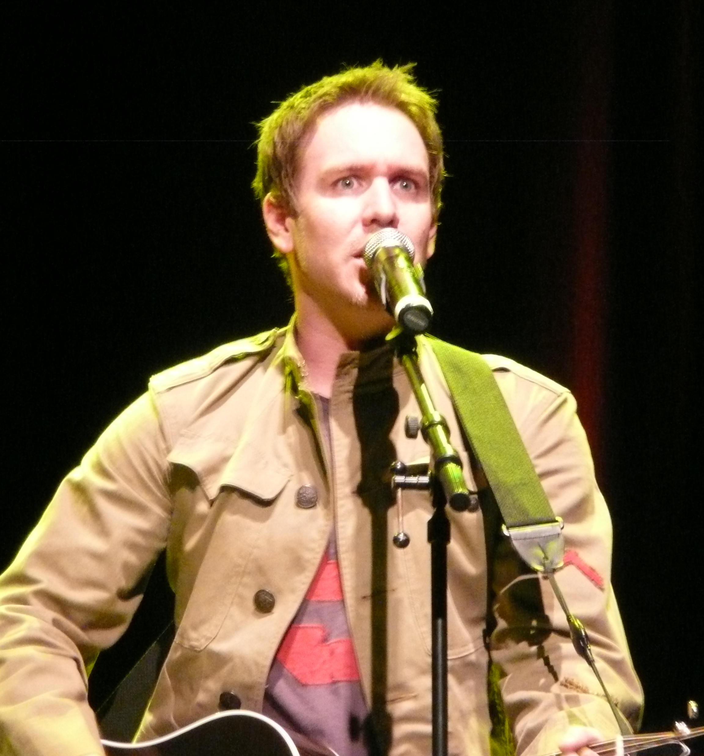 Stephen Lynch on June 14, 2008